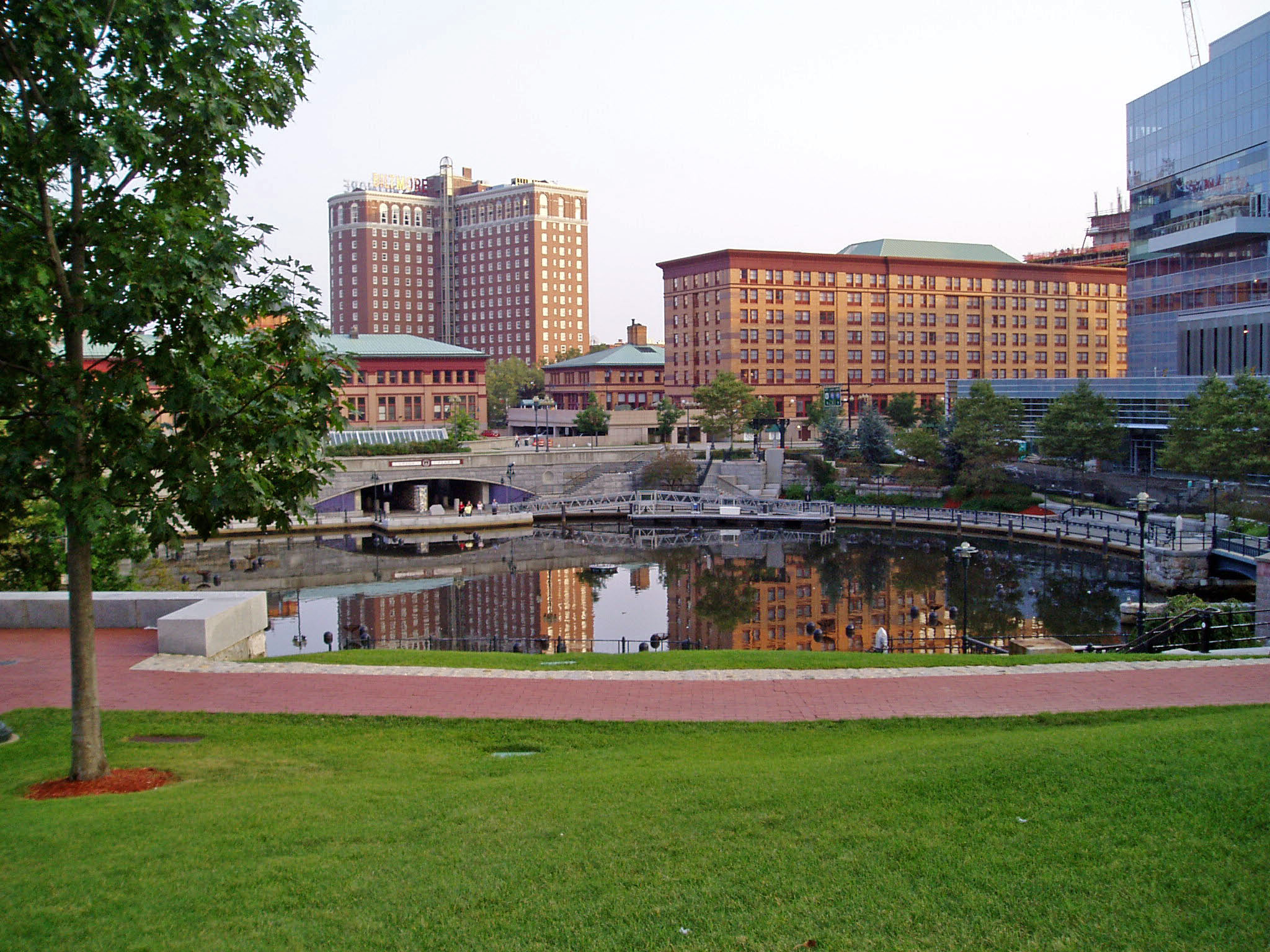 Waterplace Park in downtown Providence, Rhode Island.